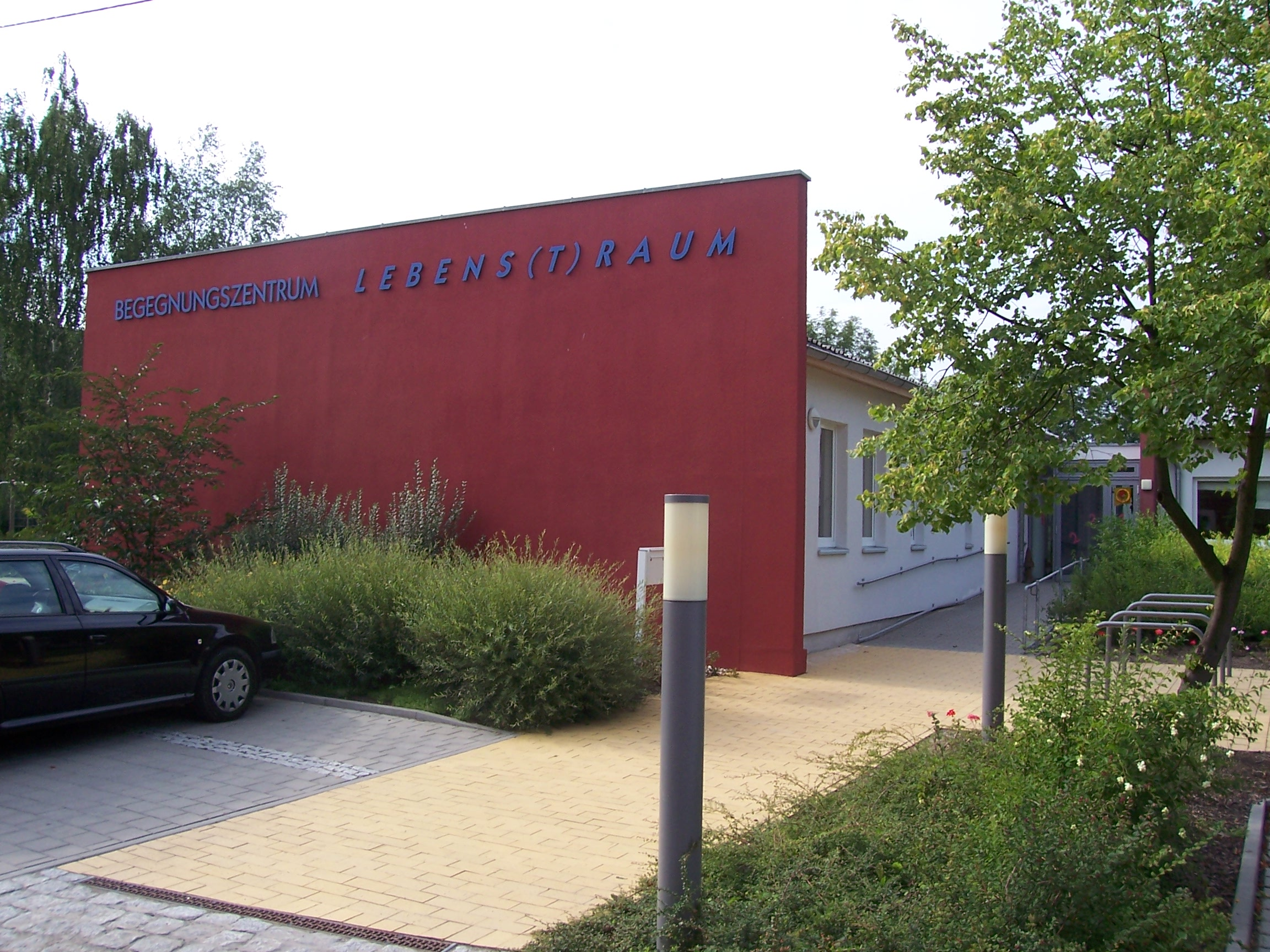 citizen centre in Zschettgau near Eilenburg